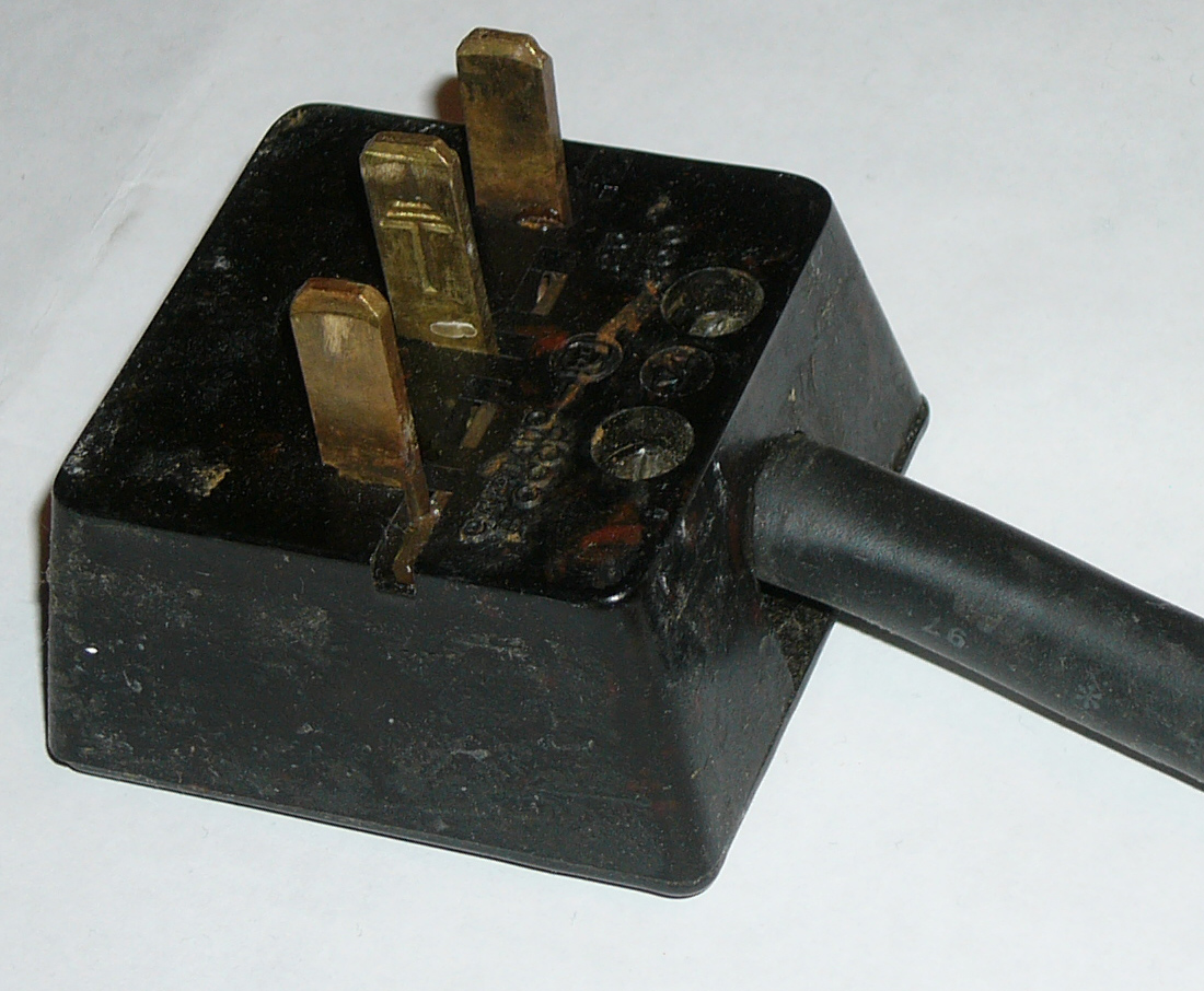 Soviet single phase plug for an electric stove, 250V 25A AC, made ca. 1980 of fire resistant thermoset plastic.